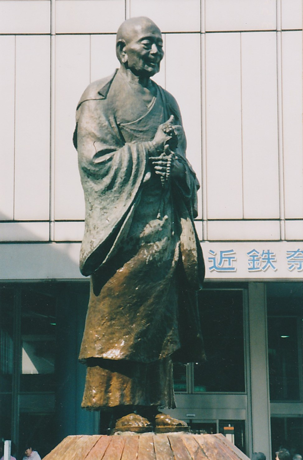 Priest Gyoki before Kintetsu station (Nara)